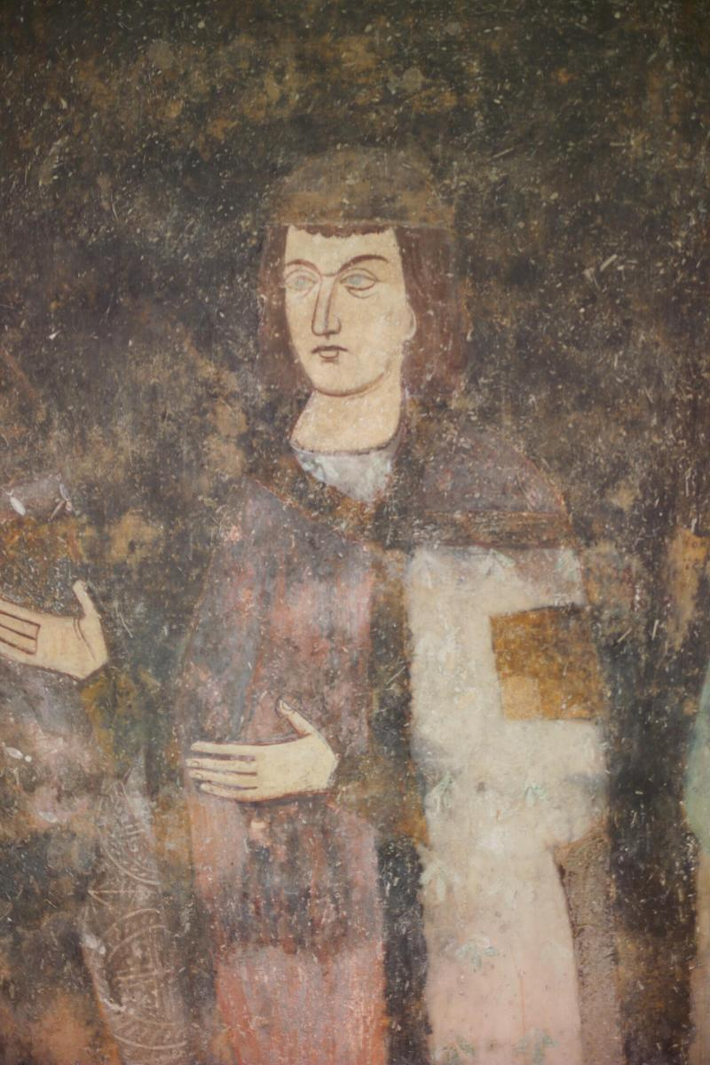 The fresco of young Milutin, Sopocani, Serbia